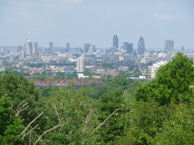 Honor Oak Park: city view from One Tree Hill A splendid view north from the top of One Tree Hill, towards some familiar landmarks of the City of London.